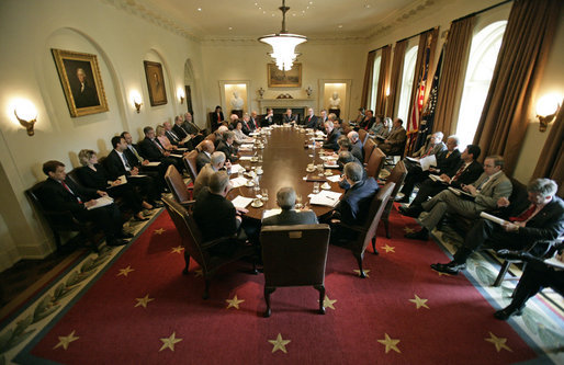 President George W. Bush meets with his Cabinet in the Cabinet Room Thursday, June 1, 2006. Among subjects discussed was the war on terror, the hurricane season, immigration and the strength of the economy.